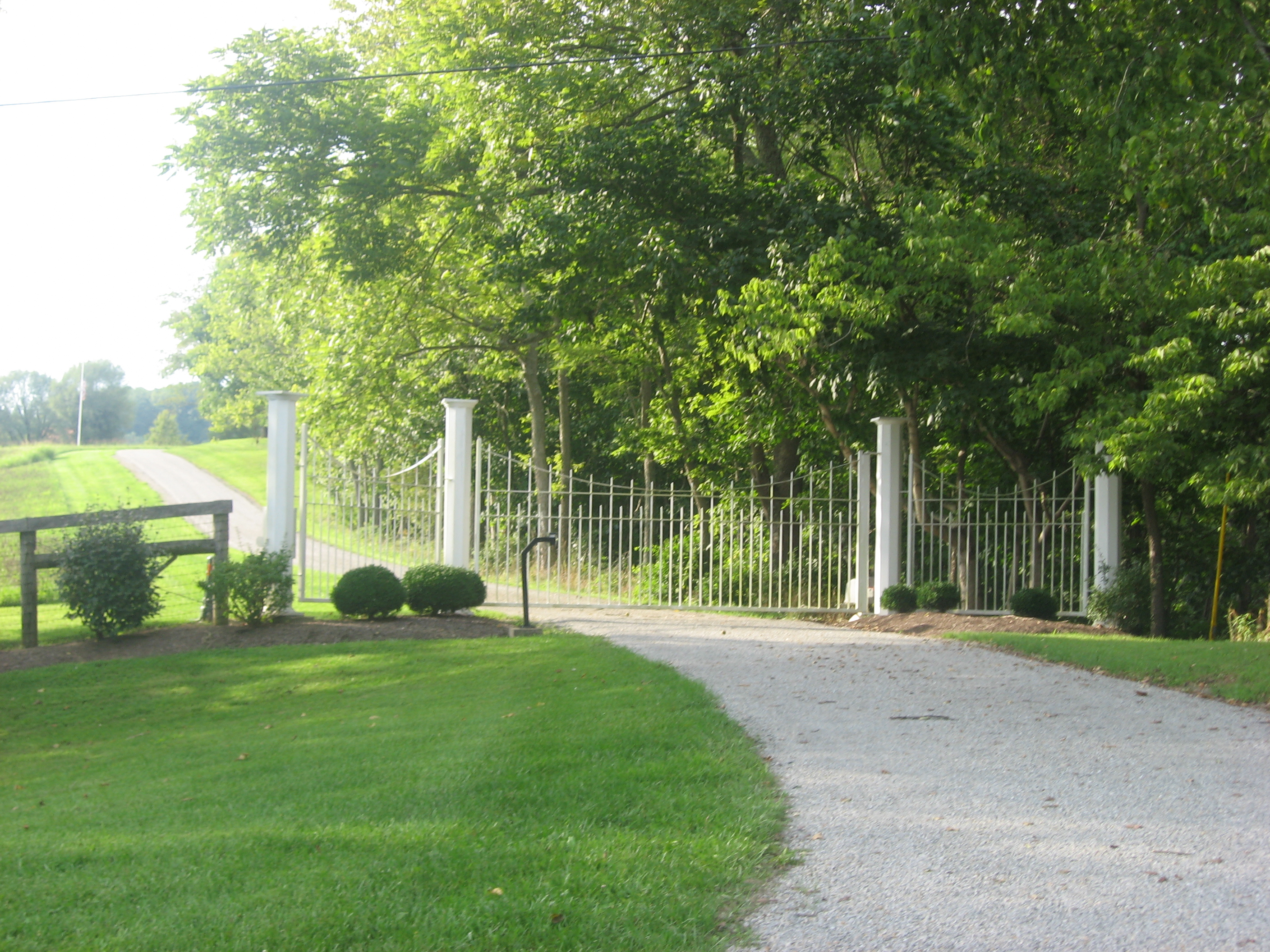 Gateway to the Thompson Farm, located along State Route 221) west of Georgetown in Pleasant Township, Brown County, Ohio, United States. The farm is listed on the National Register of Historic Places.